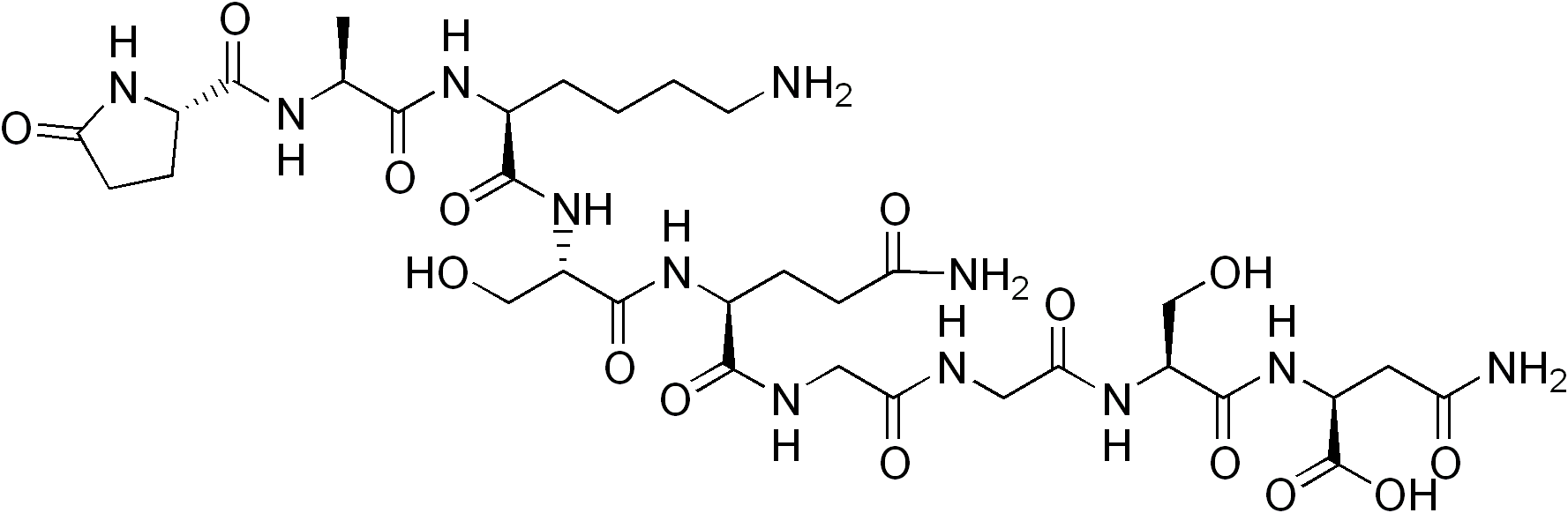 chemical structure of thymulin